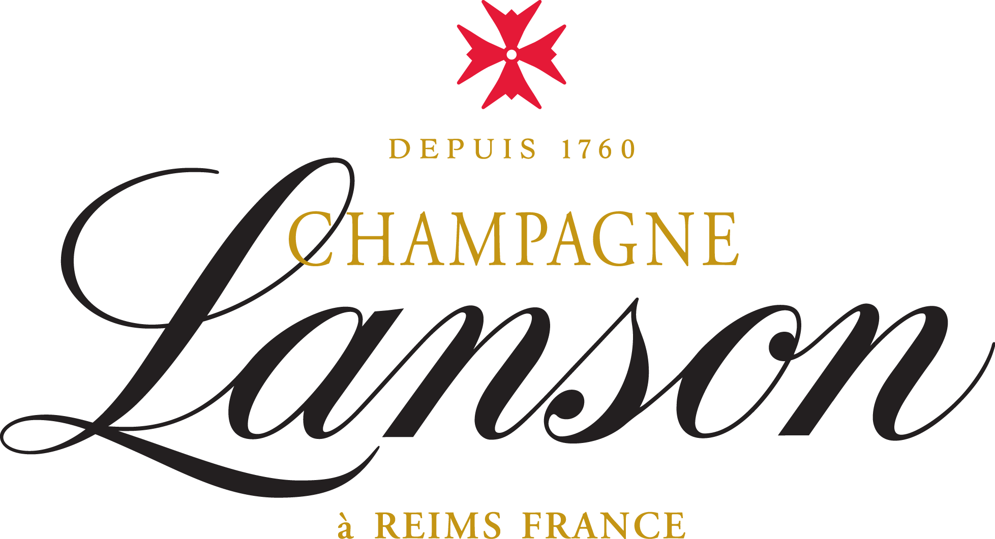 Logo of Champagne Lanson